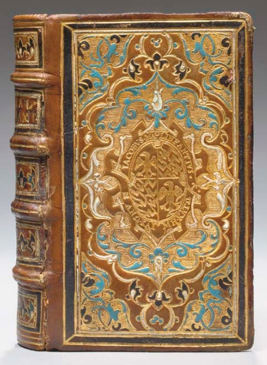 Elaborate binding on a book owned by Jacques de Malendant, c. 1561.